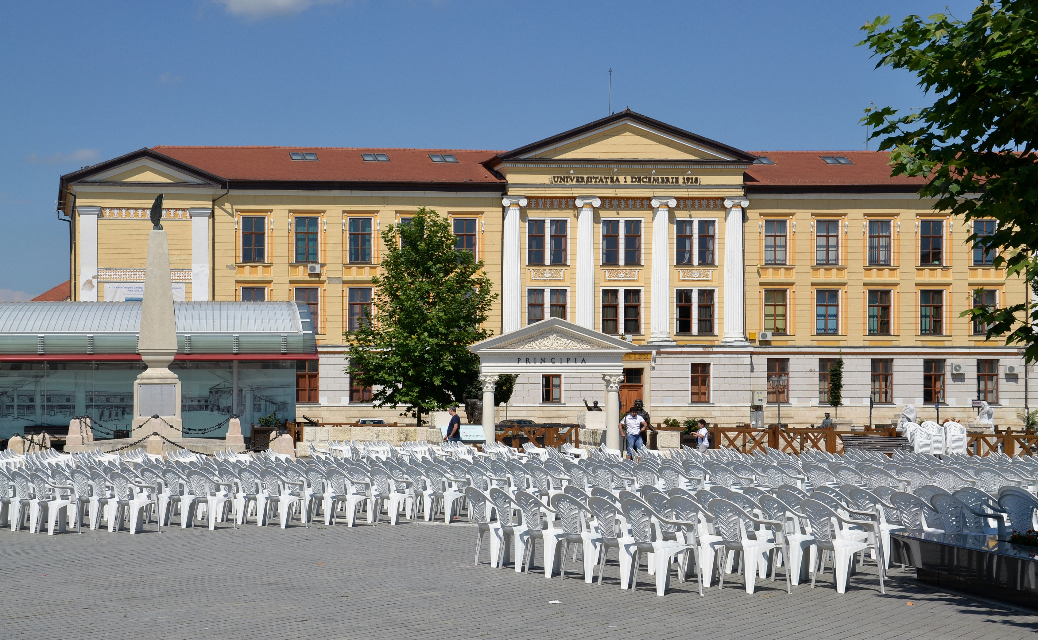 Alba Iulia (Gyulafehérvár, Karlsburg), Romania - 1 Decembrie 1918 University